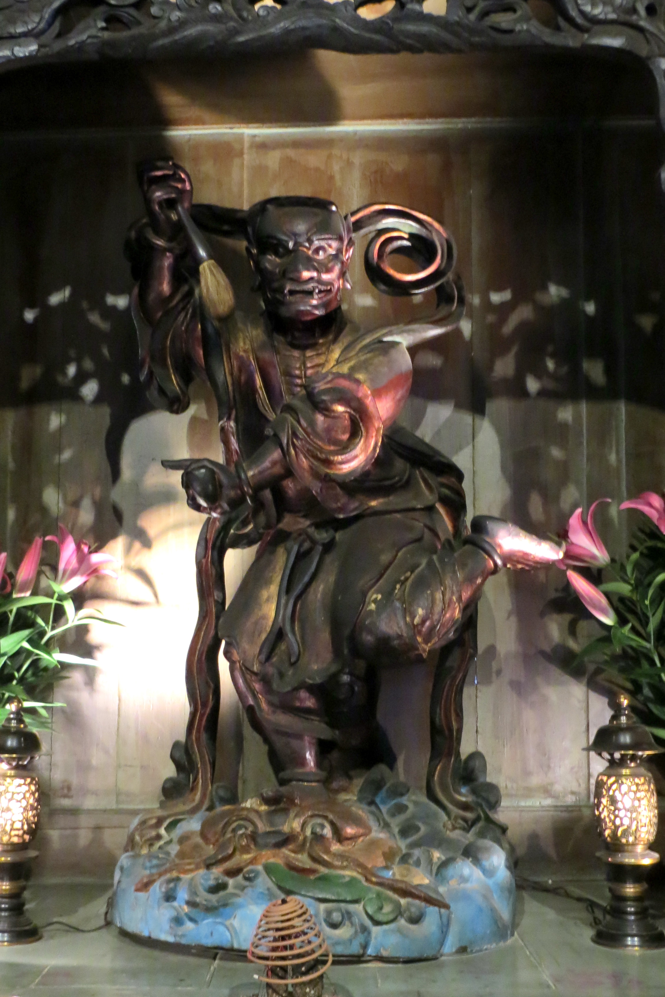 Kui Xing - the god of examinations in Chinese mythology and an associate of the god of literature, Wen Chang.